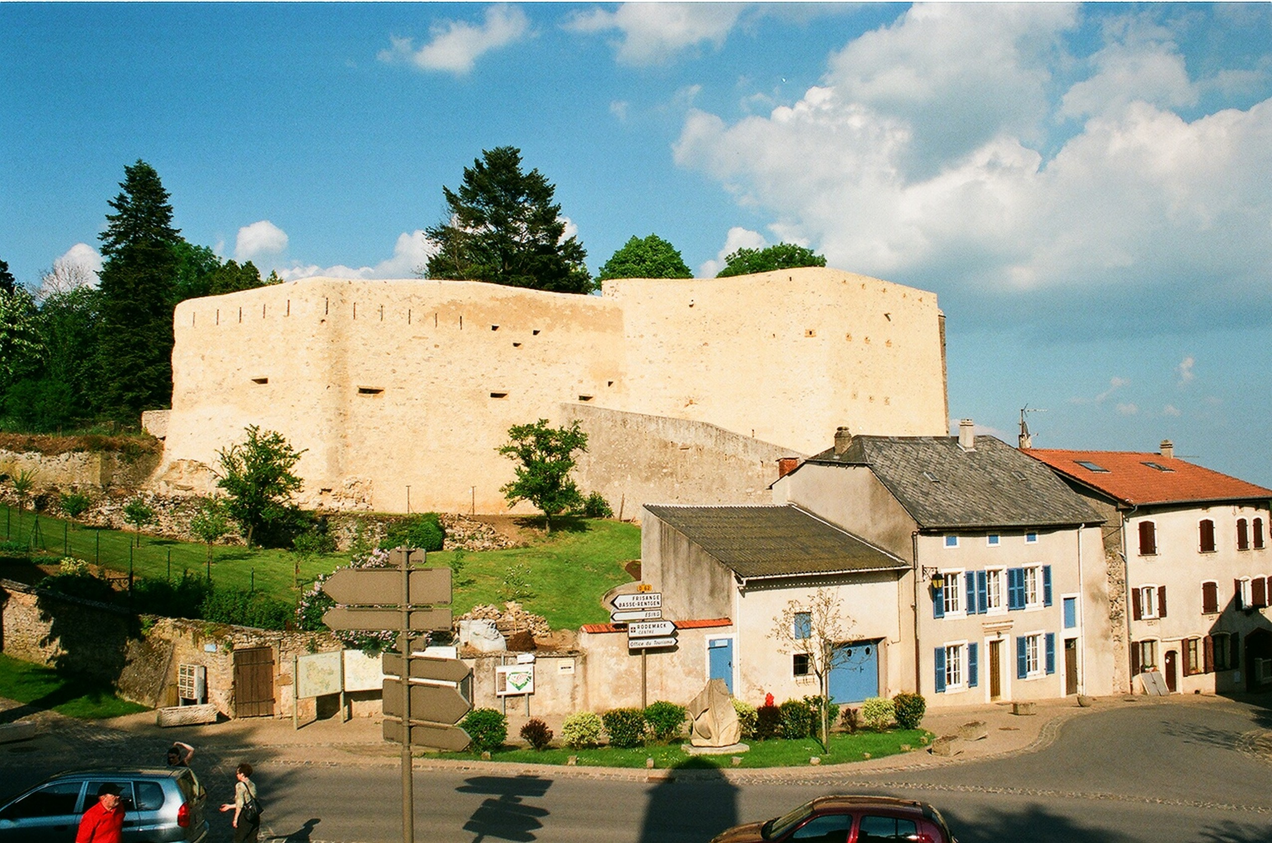 Rodemack, the fortress